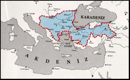 Ottoman Empire approximate boarders during the reign of sultan Bayezid I.